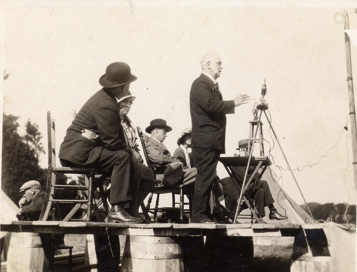 George Lansbury (1859-1940), politician, delivering a speech. Lansbury was Labour MP for Bromley and Bow 1910-1912 and 1922-1940, and leader of the Labour Party 1931-1935. He was a major supporter of equal rights and votes for women and led the Poplar Rates Rebellion in 1921 whilst mayor of Poplar. IMAGELIBRARY/1364 Persistent URL